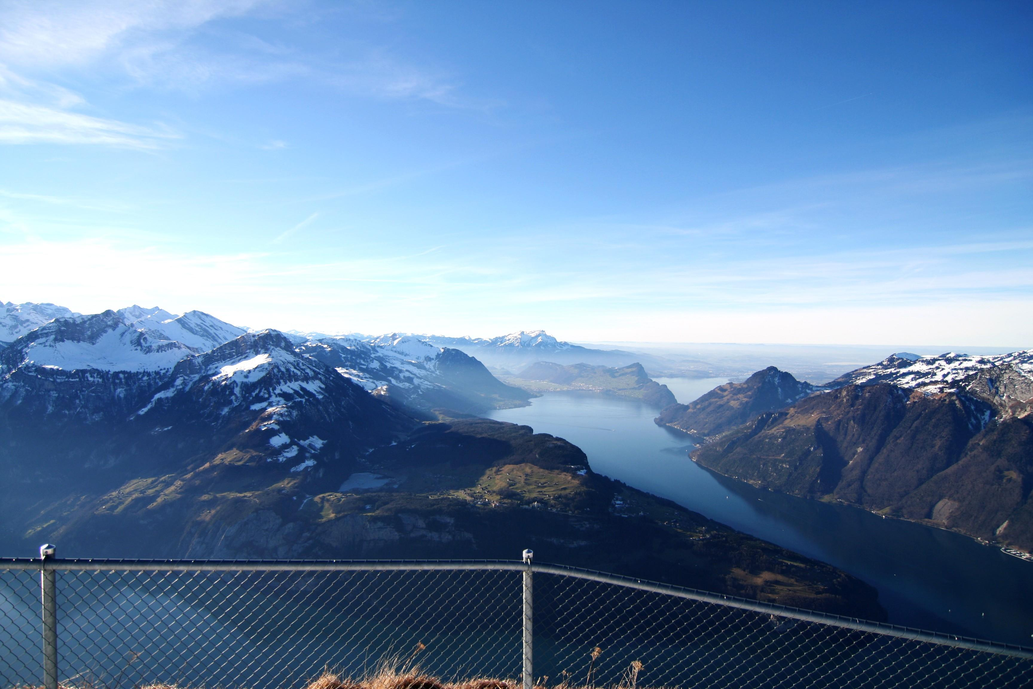 Lake Lucerne from Fronalpstock.